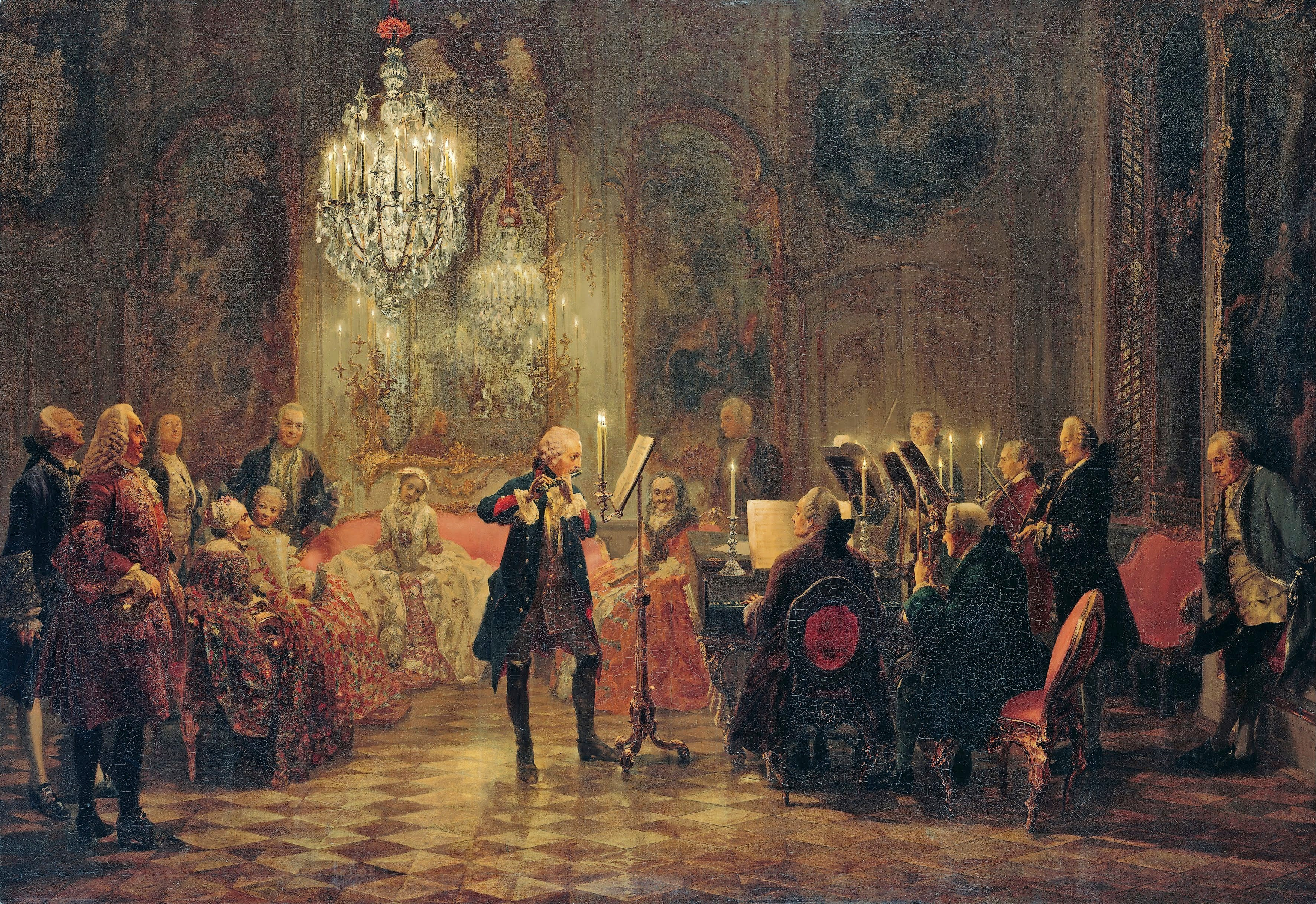 Middle: Frederick the Great; far right: Johann Joachim Quantz, the king's flute teacher; to his left with a violin and wearing dark clothing: Franz Benda; leftmost in the foreground: Gustav Adolf von Gotter; behind him: Jakob Friedrich von Bielfeld; behind him, looking at the ceiling: Pierre Louis Maupertuis; in the background, sitting on a pink sofa: Wilhelmine of Bayreuth; on her right: Amalie of Prussia with a maid of honor; behind them, Carl Heinrich Graun; the elderly lady behind the music stand: Sophie Caroline; behind her: Egmont of Chasot; at the harpsichord: Carl Philipp Emanuel Bach.